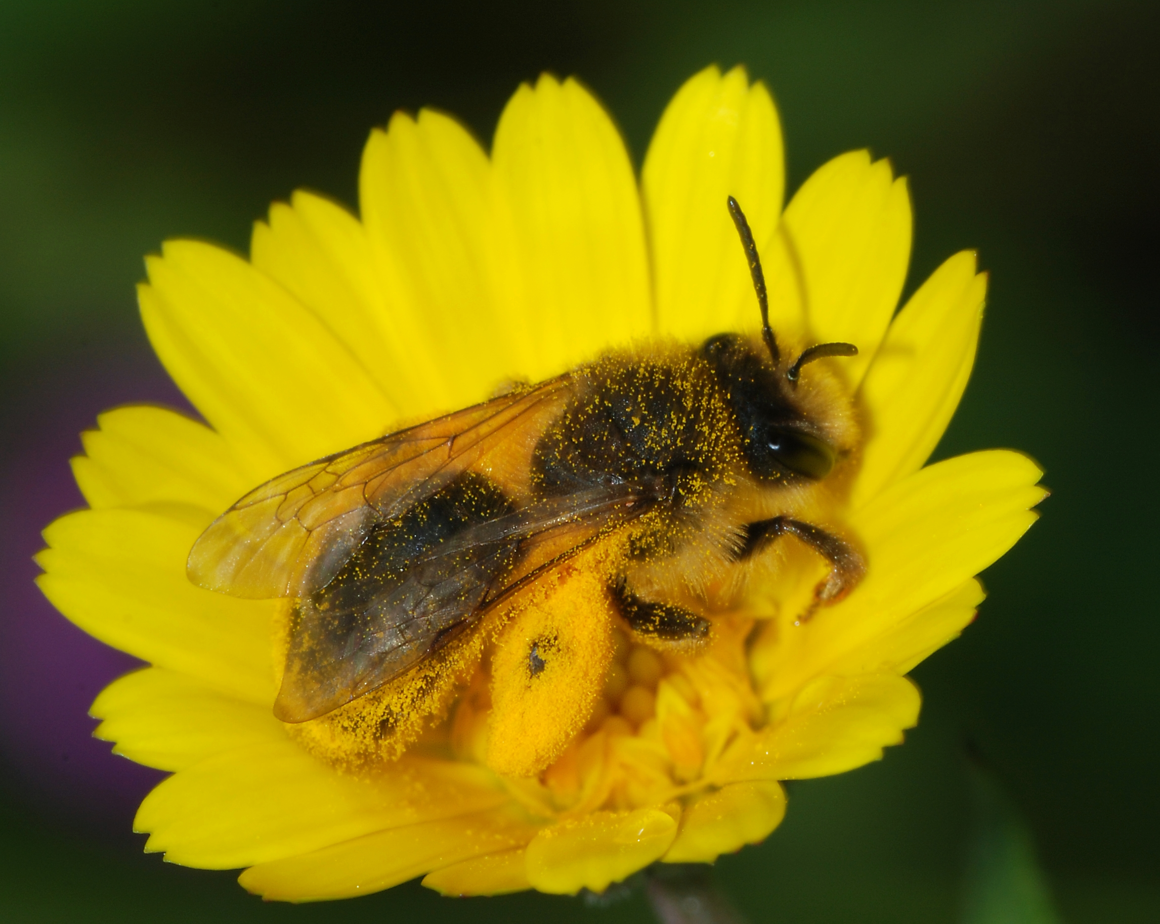 A Andrena sp. bee with a full load of pollen on a Calendula arvensis flower